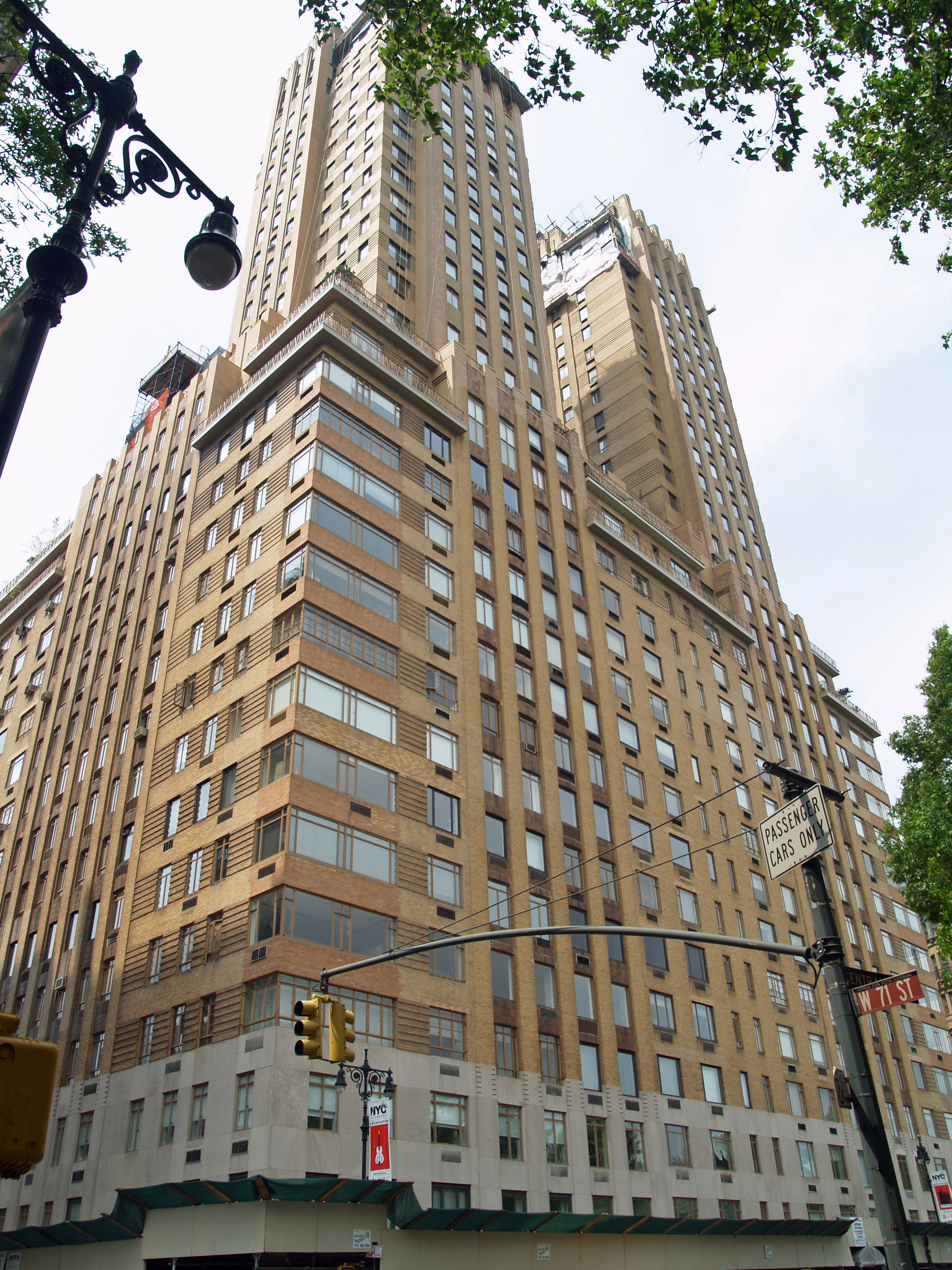 115 Central Park West (The Majestic)